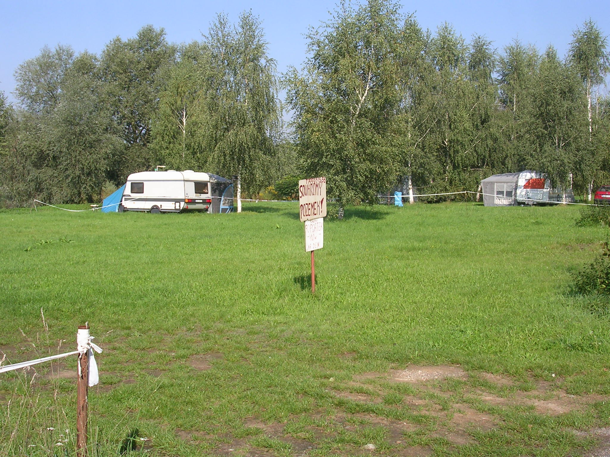 Příšovice, Liberec District, Liberec Region, the Czech Republic. A campsite near Malý Písečák lake.